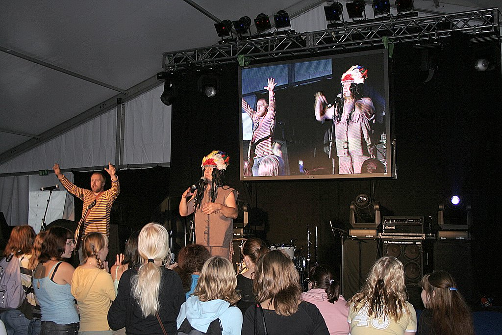 Direct line festival During the historical openings of the Kerava–Lahti (the Lahti direct line) direct railway line the railway company VR organised the direct line festival in Lahti, Finland.